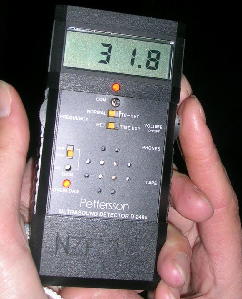 Bat detector, ultrasound detector